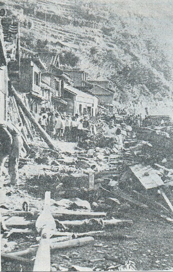 Dera Typhoon in 1954-6 Kashu beach